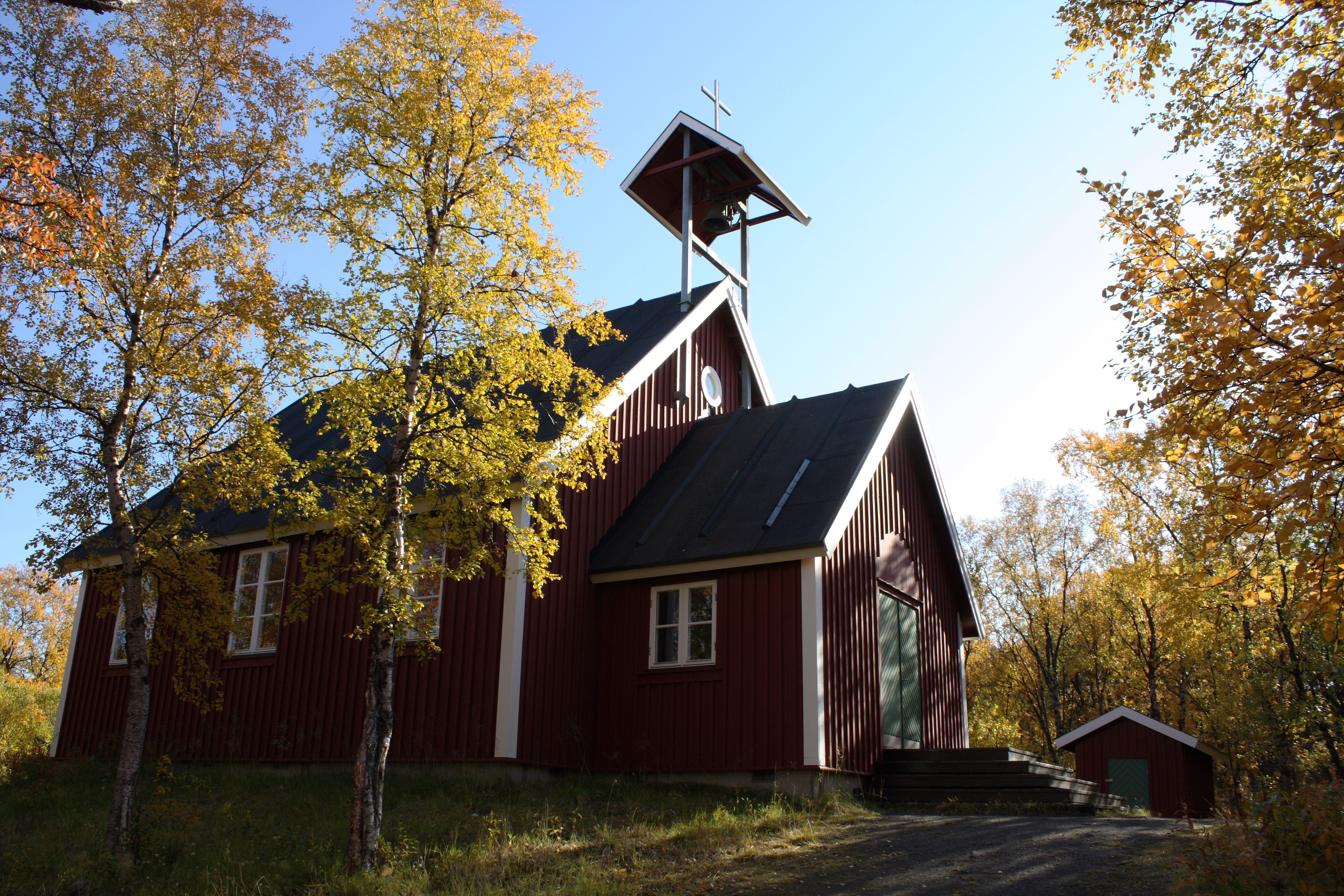 Chapel in Tornehamn